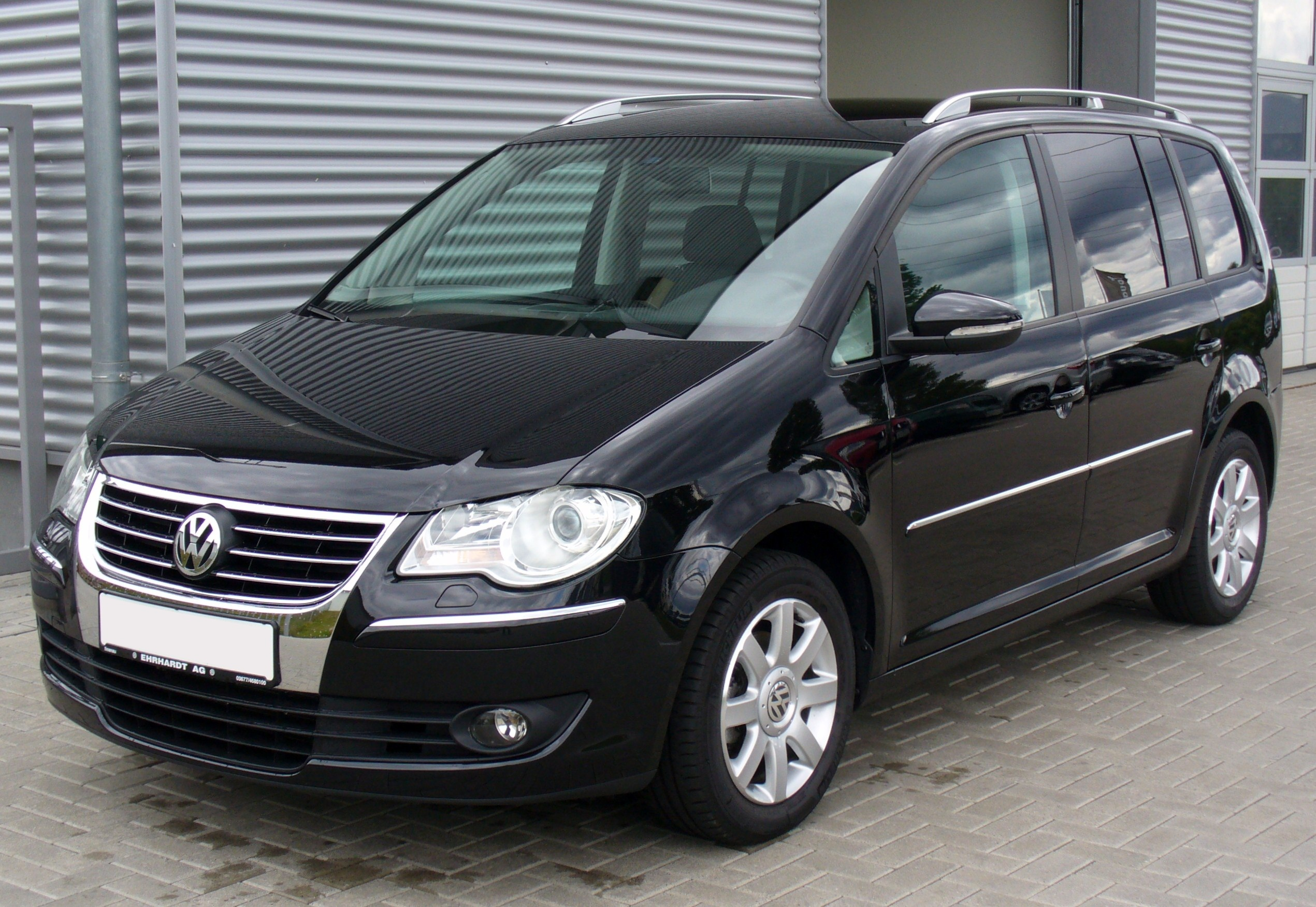 VW Touran Facelift